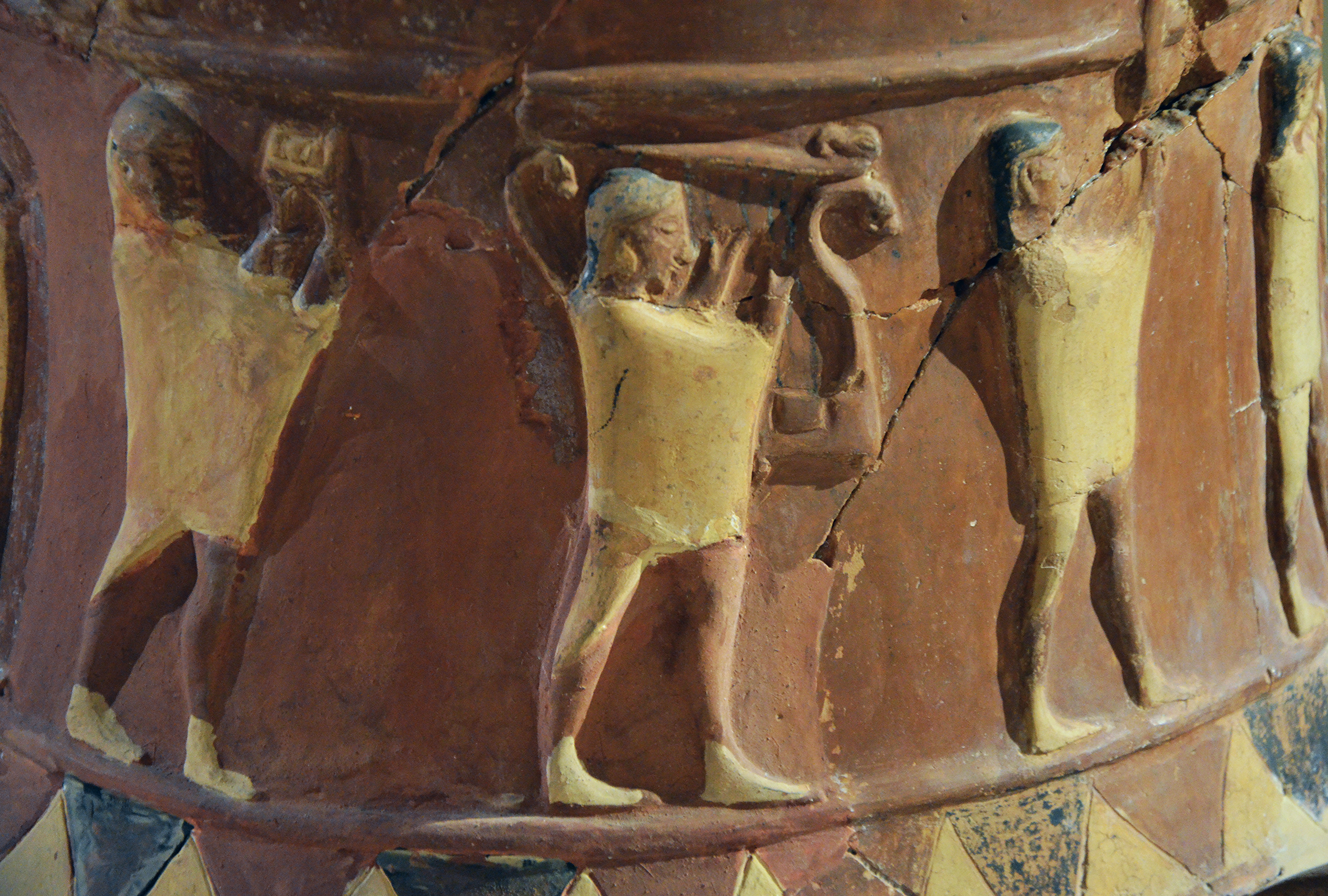 The İnandık vase, a Hittite four-handled large terracota vase with scenes in relief depicting a sacred wedding ceremony, mid 17th century, found in İnandıktepe, Museum of Anatolian Civilizations, Ankara